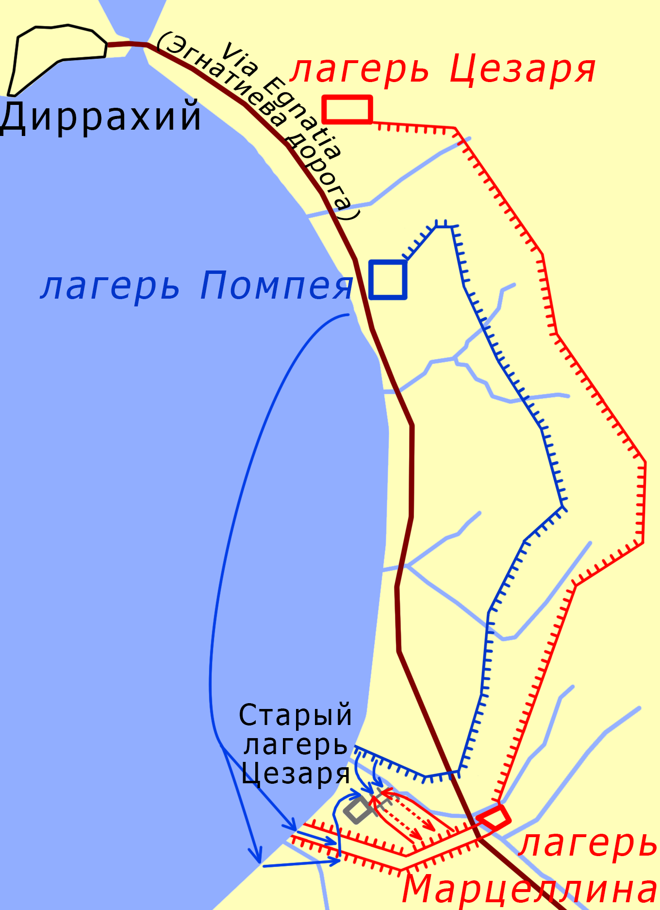 Battle of Dyrrhachium, 48 BC, Russian version